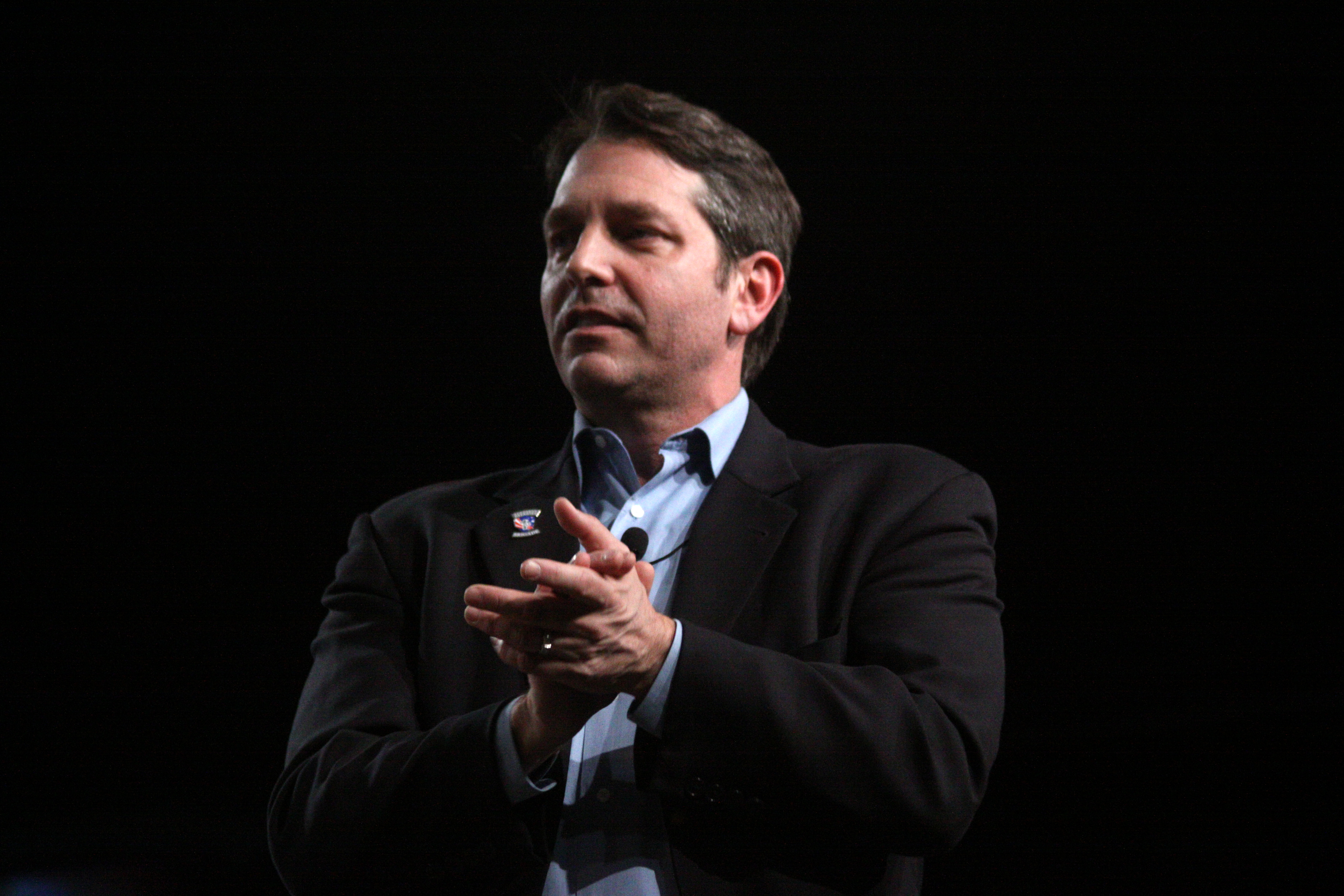 Mark Meckler speaking at the Tea Party Patriots American Policy Summit in Phoenix, Arizona.